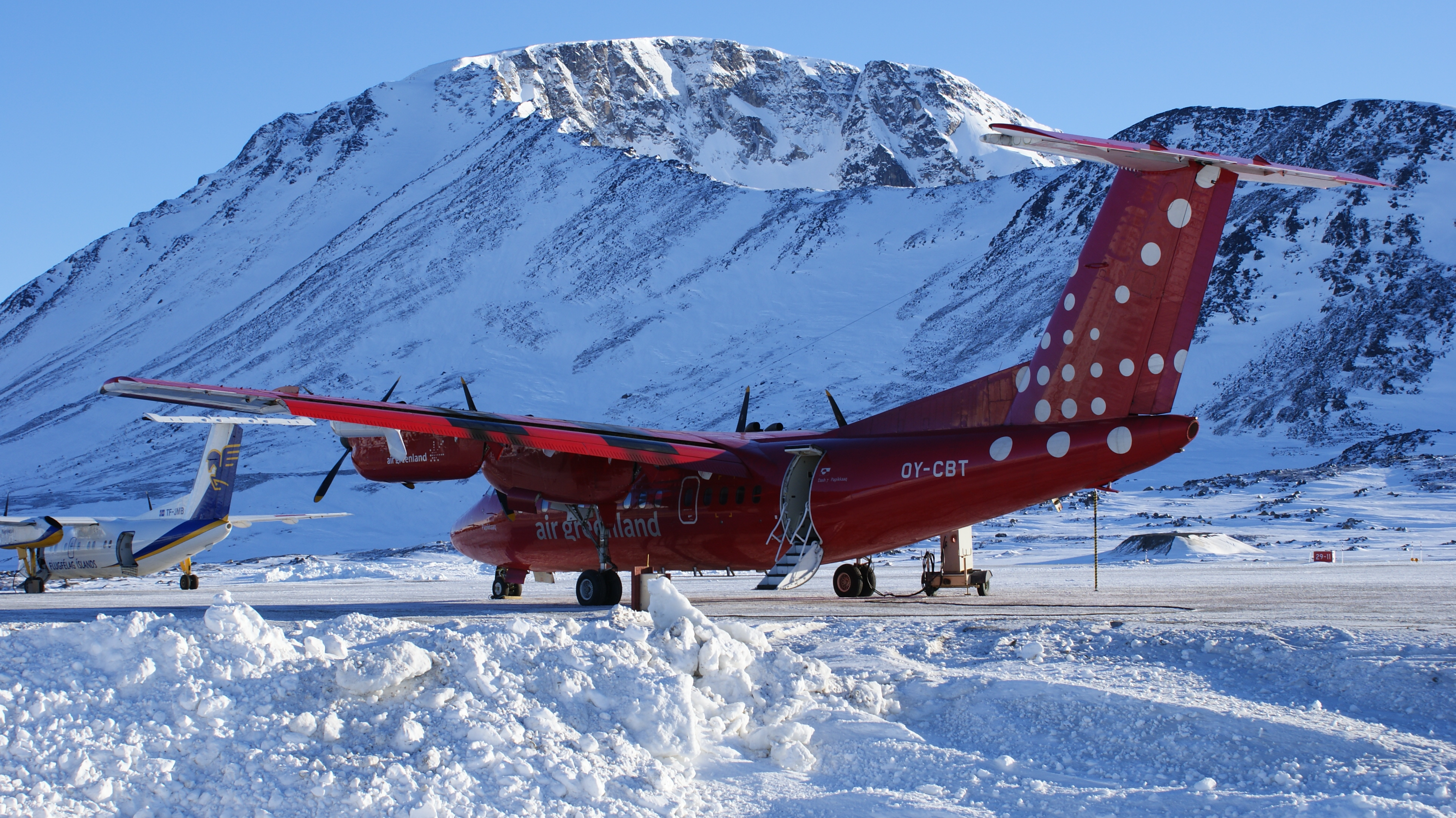 Air Greenland de Havilland Canada Dash-7 "Papikkaaq" at Kulusuk Airport, Greenland. Qalorujoorneq mountain in the background.